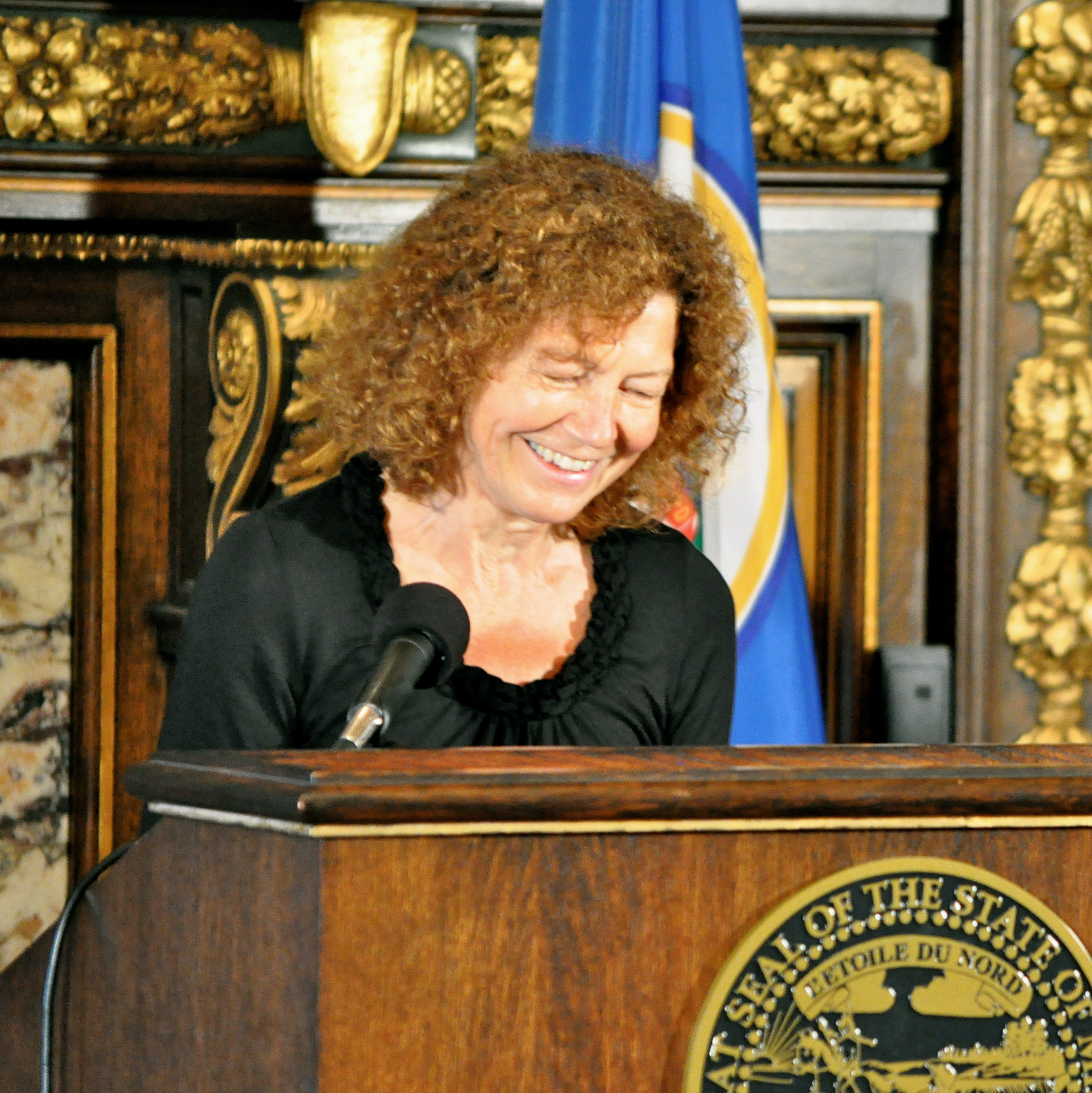 Joyce Sutphen speaking after Minnesota Governor Mark Dayton announced her appointment as the second Poet Laureate for the State of Minnesota.